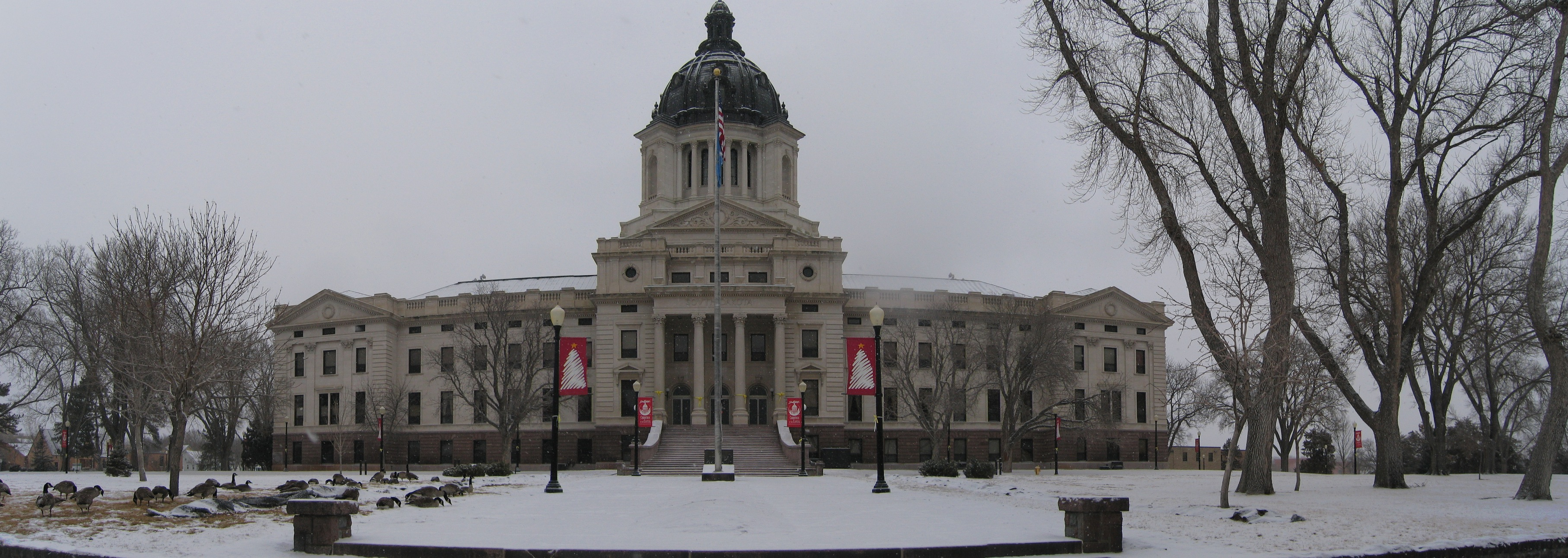 The South Dakota State Capitol in Pierre in winter. I took this photo on January 1, 2005.